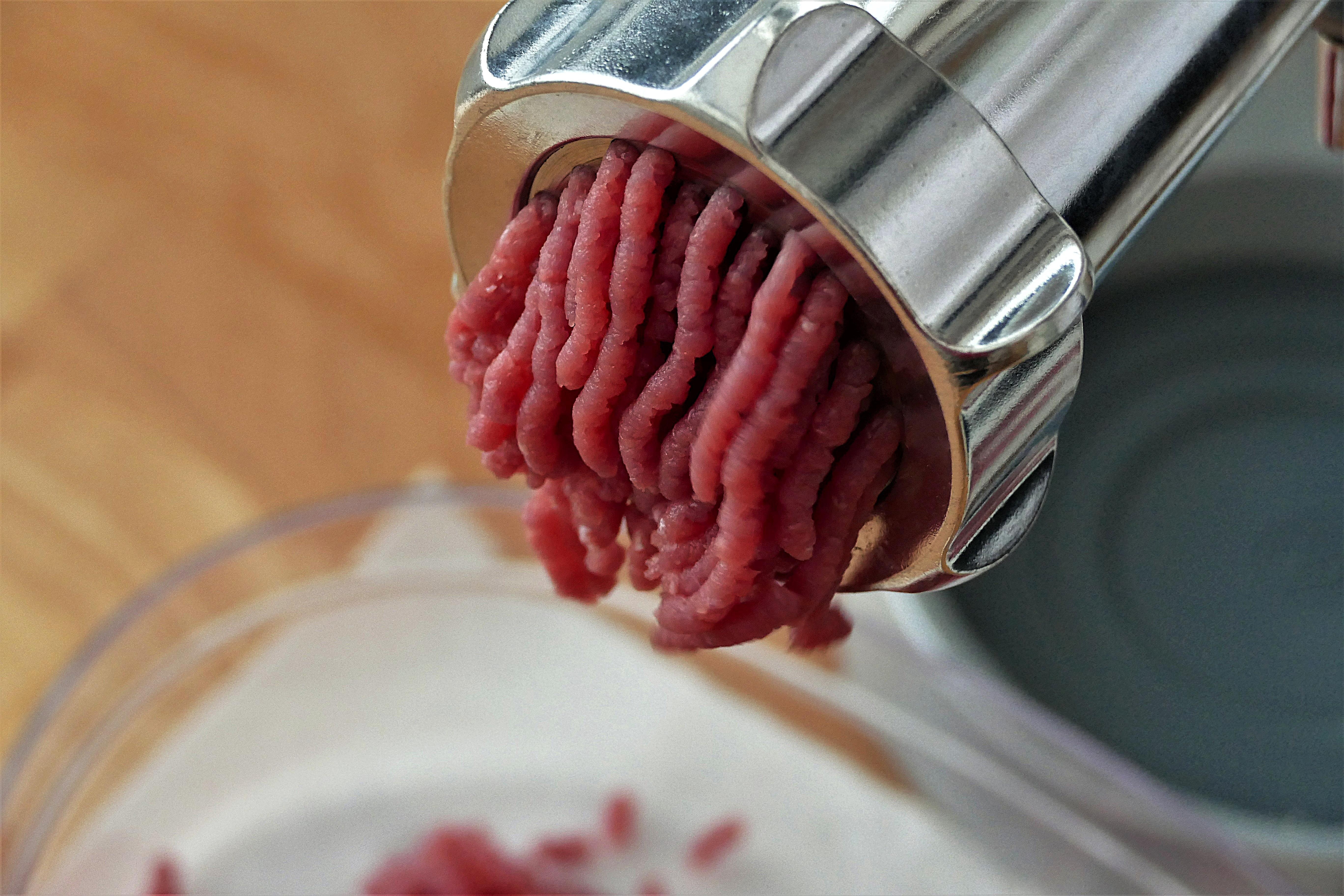 Ground meat British